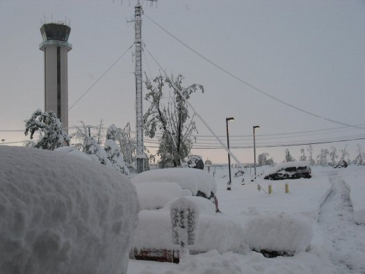 National Weather Service Caption "Two feet of snow on October 12-13, 2006 produced this scene at the Buffalo National Weather Service Office. Vehicles, antennas and area trees were buried by the rare mid-October event."